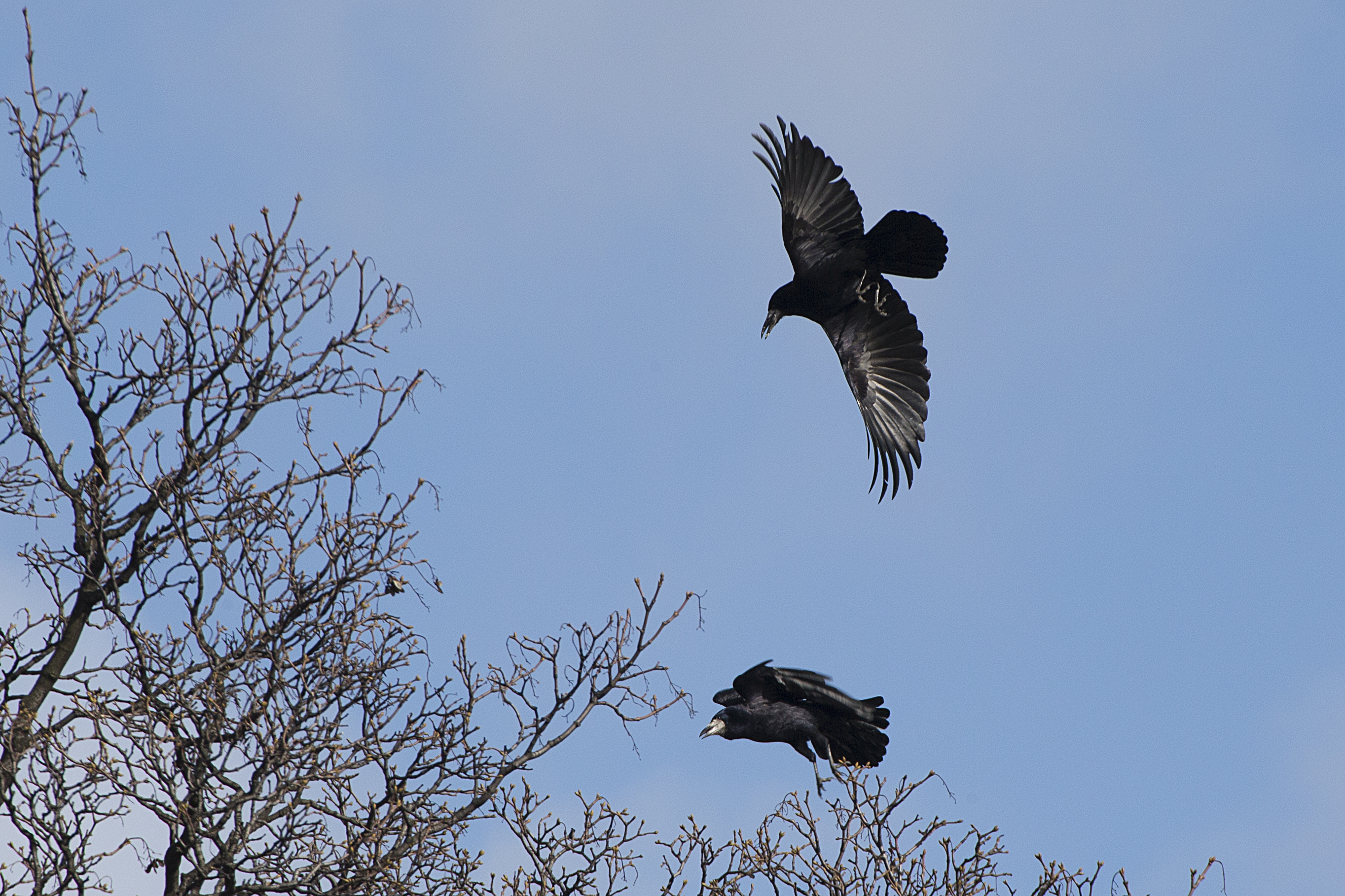 The rook, Lodz(Poland)